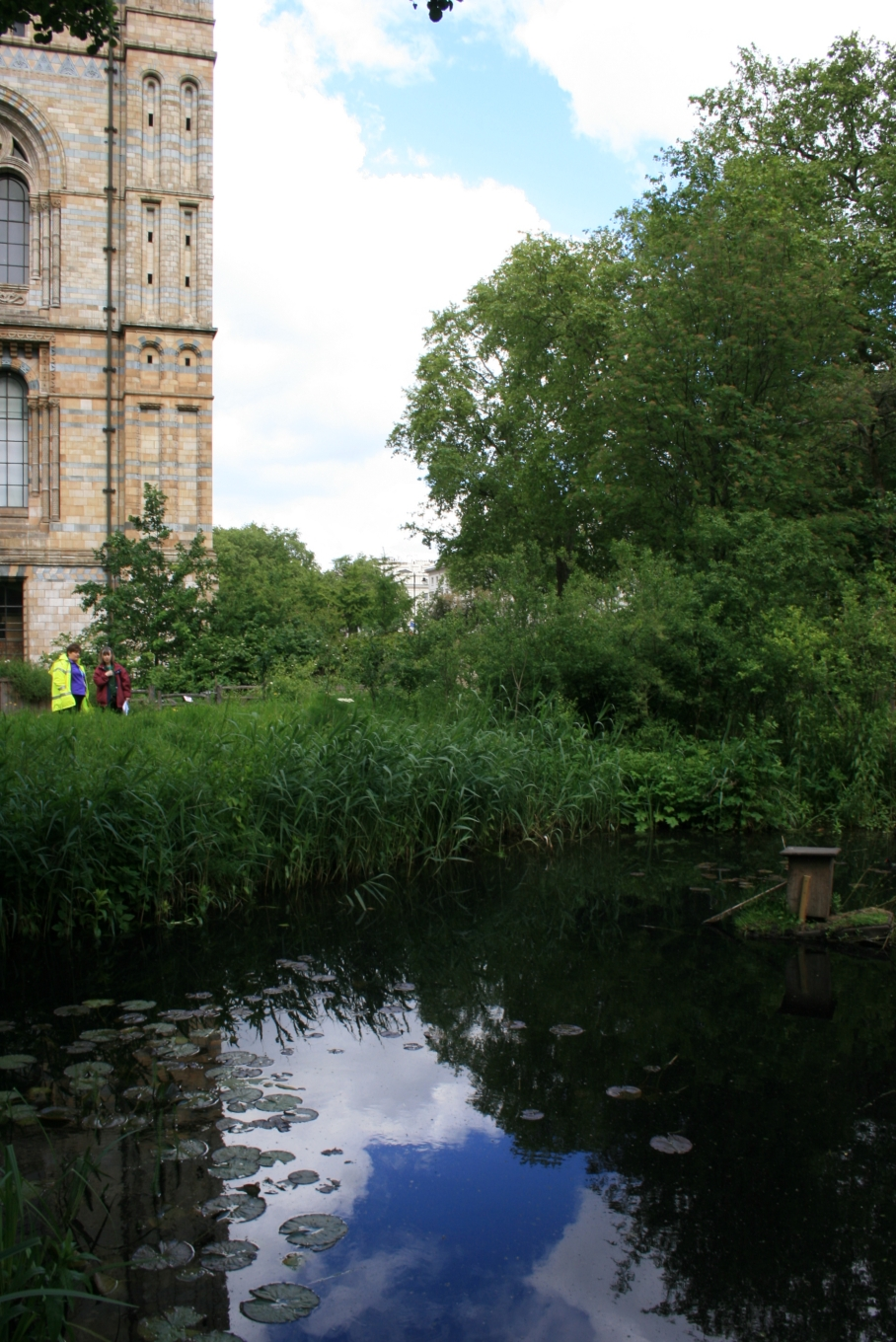 The Wildlife Garden at the Natural History Museum in London